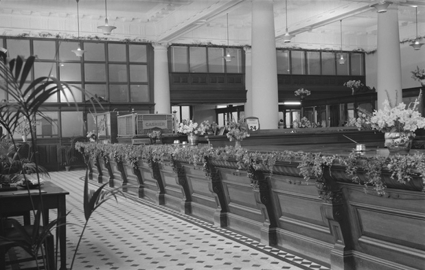 The interior of the AMP Chambers in Perth, Western Australia, decorated for Flower Day in Spring 1954. The building was demolished in 1972 to make way for the AMP Building (now known as "140 St Georges Terrace").